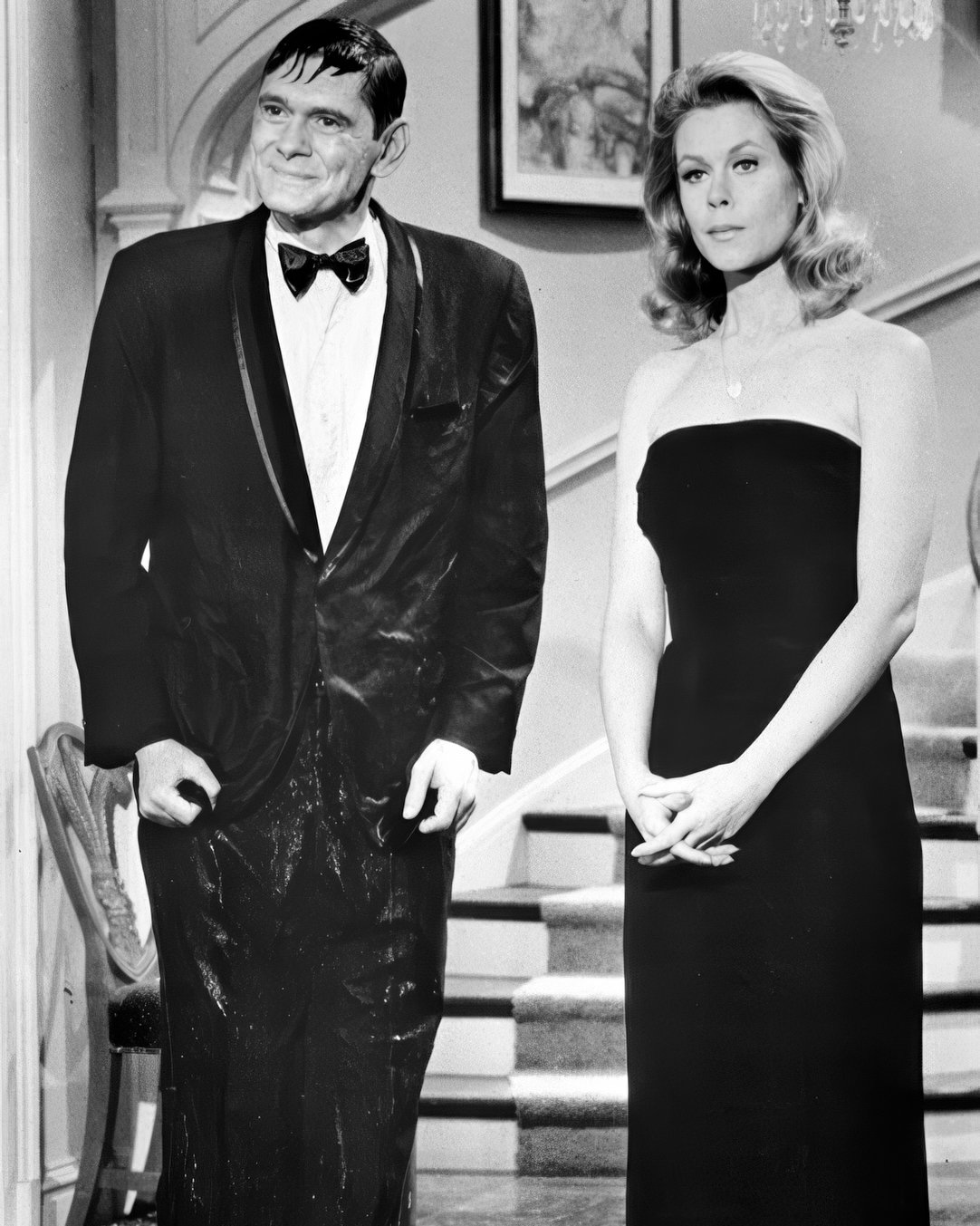 Publicity photo from Bewitched. Pictured are Darren (Dick York) and Samantha (Elizabeth Montgomery) Stephens.